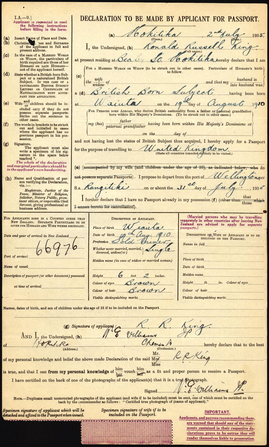 Archives New Zealand Reference: ACGO 8333 IA1 1350 / 15/11/59182